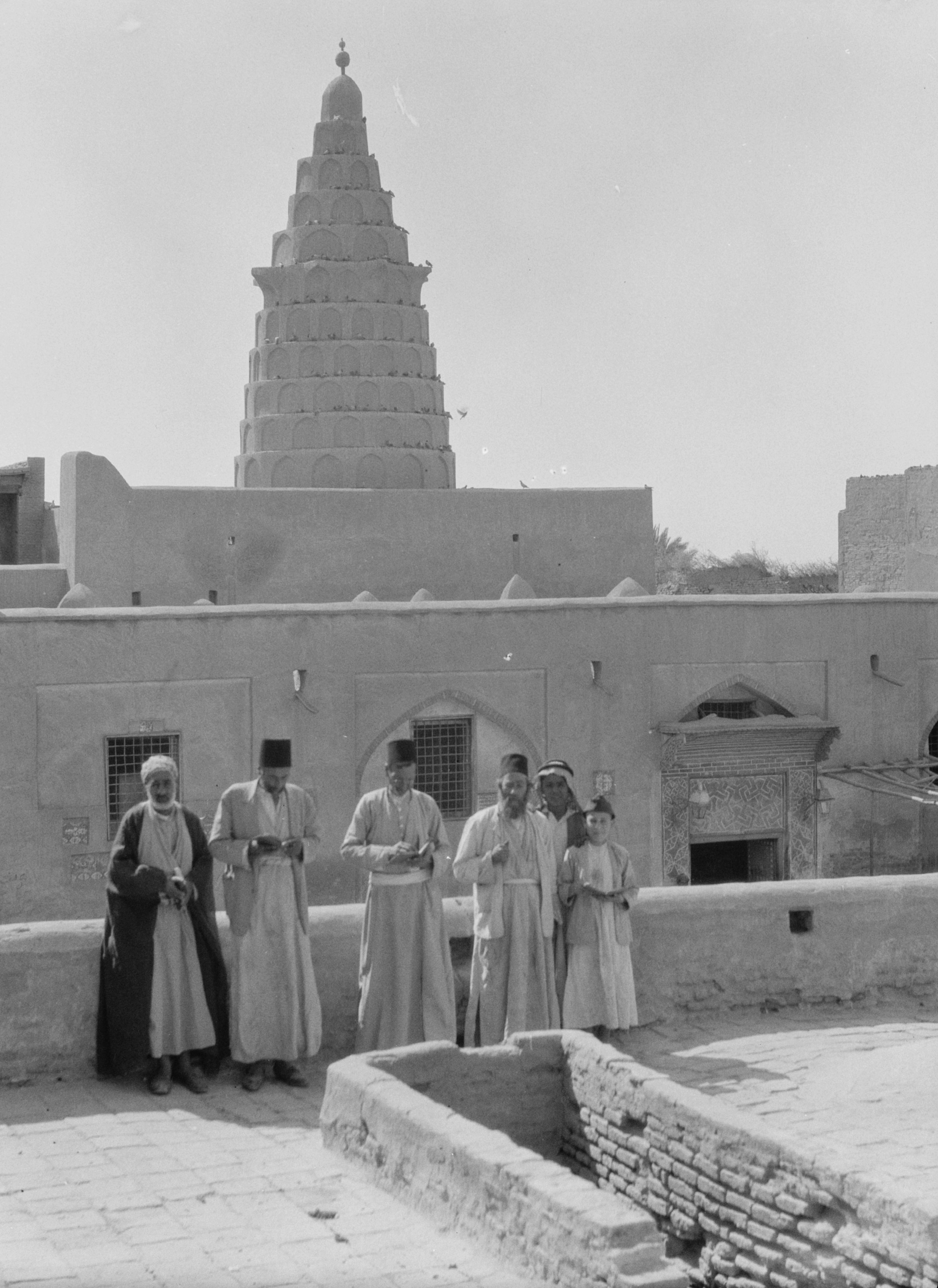 Ezekial's Tomb at Kifel,the area was inhabited by Iraqi jews who appear in the photo.